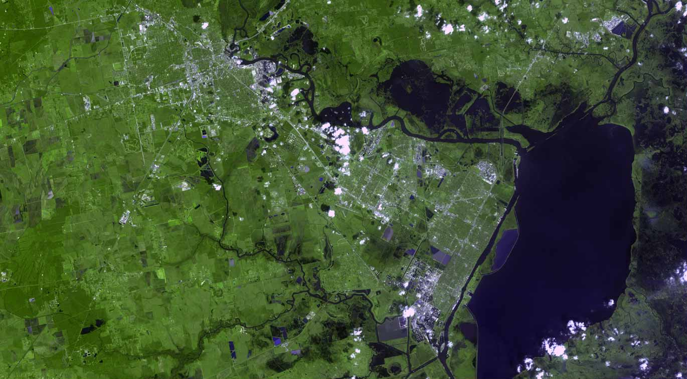 Satellite image of Beaumont, Texas